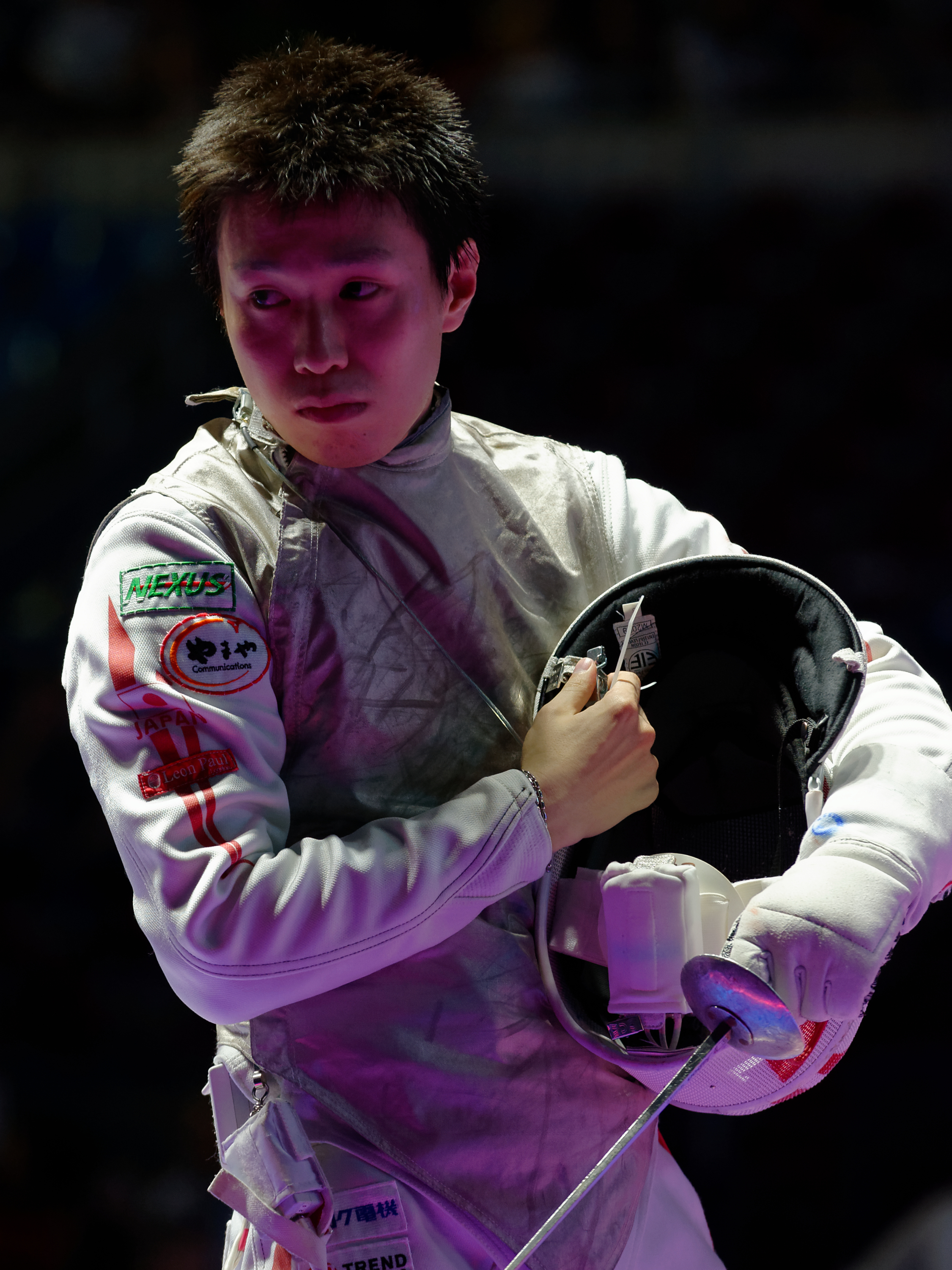 Japan's Suguru Awaji at the 2015 World Fencing Championships on 19 July 2014 at the Olympic Stadium in Moscow.